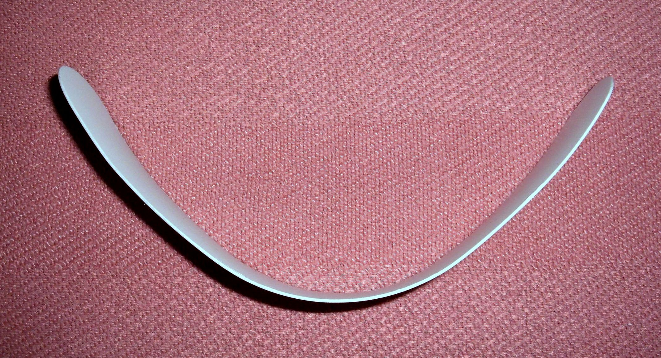 A plastic roman collar, which can be inserted into the tab in a clergy shirt, used by a Catholic priest.